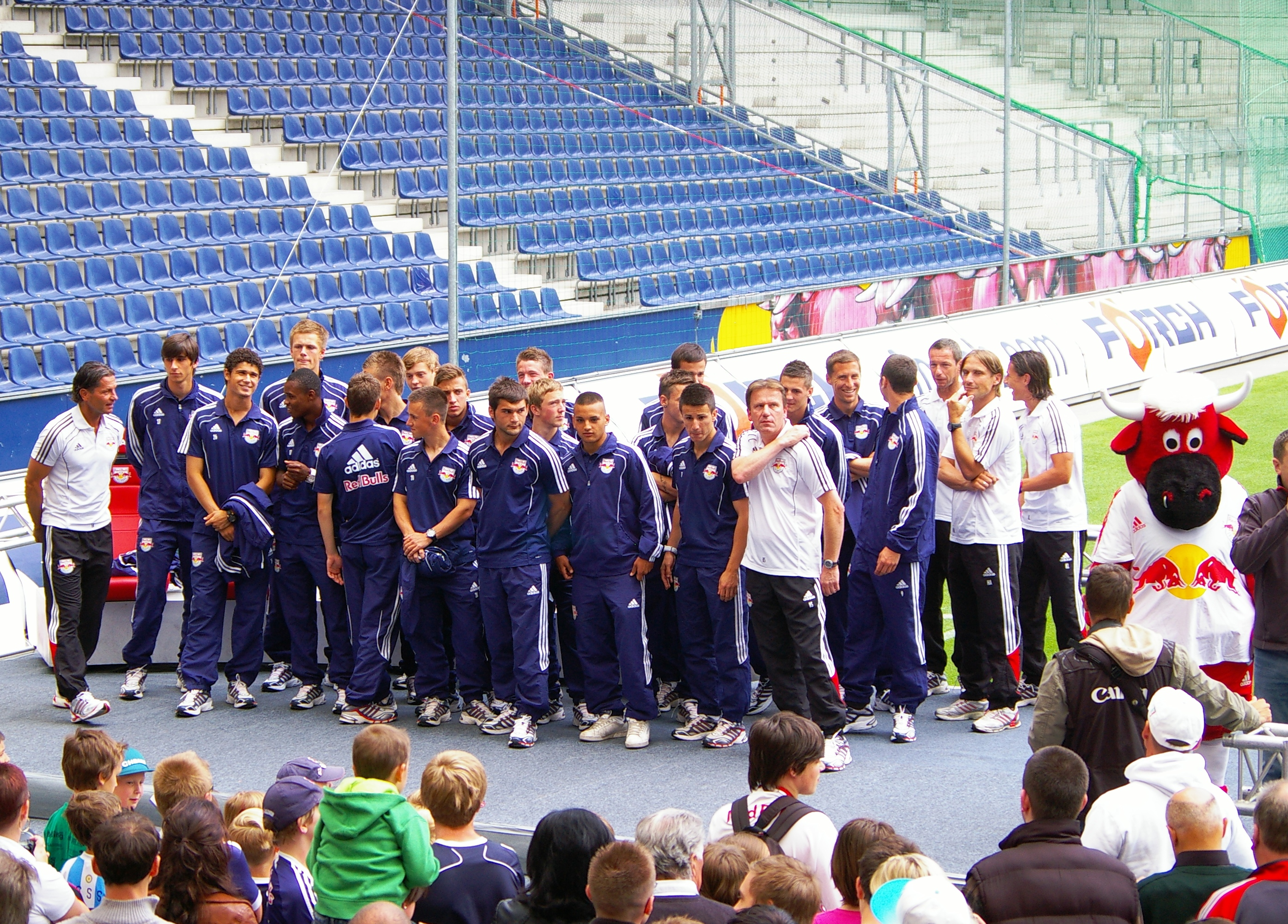 Second squad of FC Red Bull Salzburg